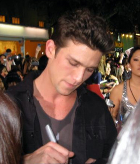 American actor Daren Kagasoff at the Twilight premiere. November 2008